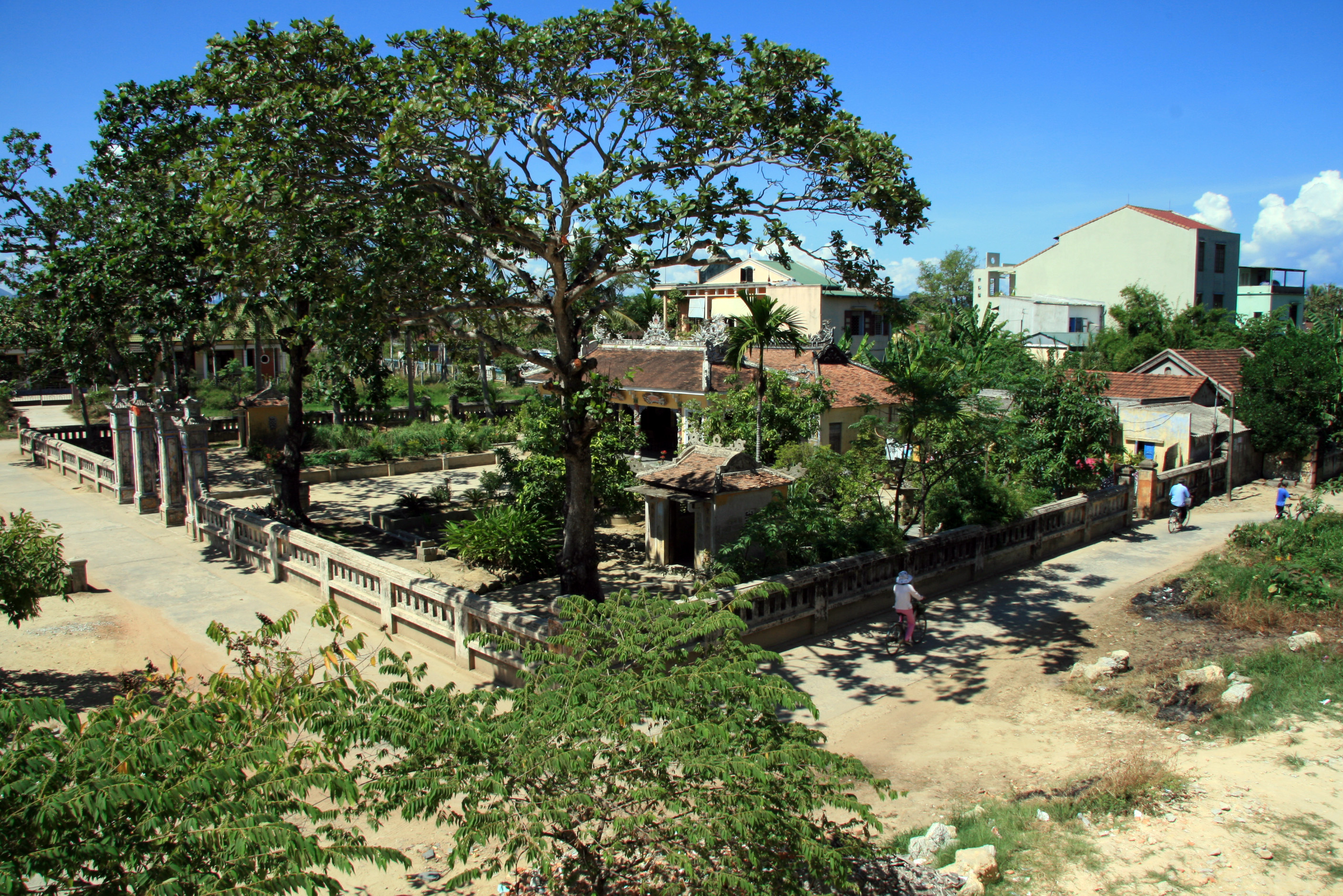 Vi Da communal house, Hue